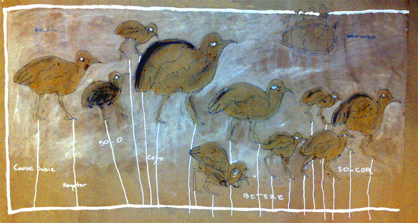 Catimbano